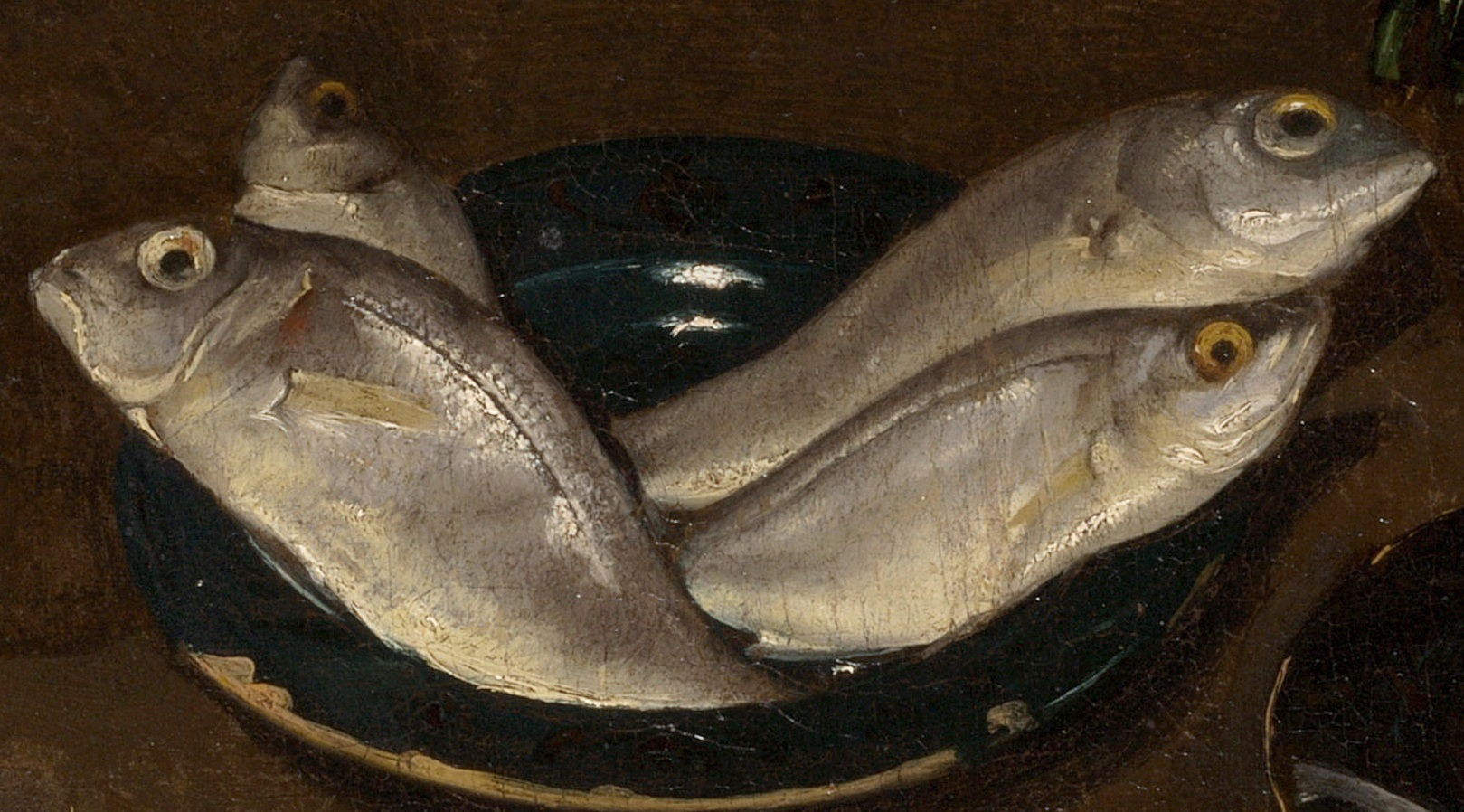 Detail of fish from Kitchen Scene with Christ in the House of Martha and Mary by Diego Velázquez.